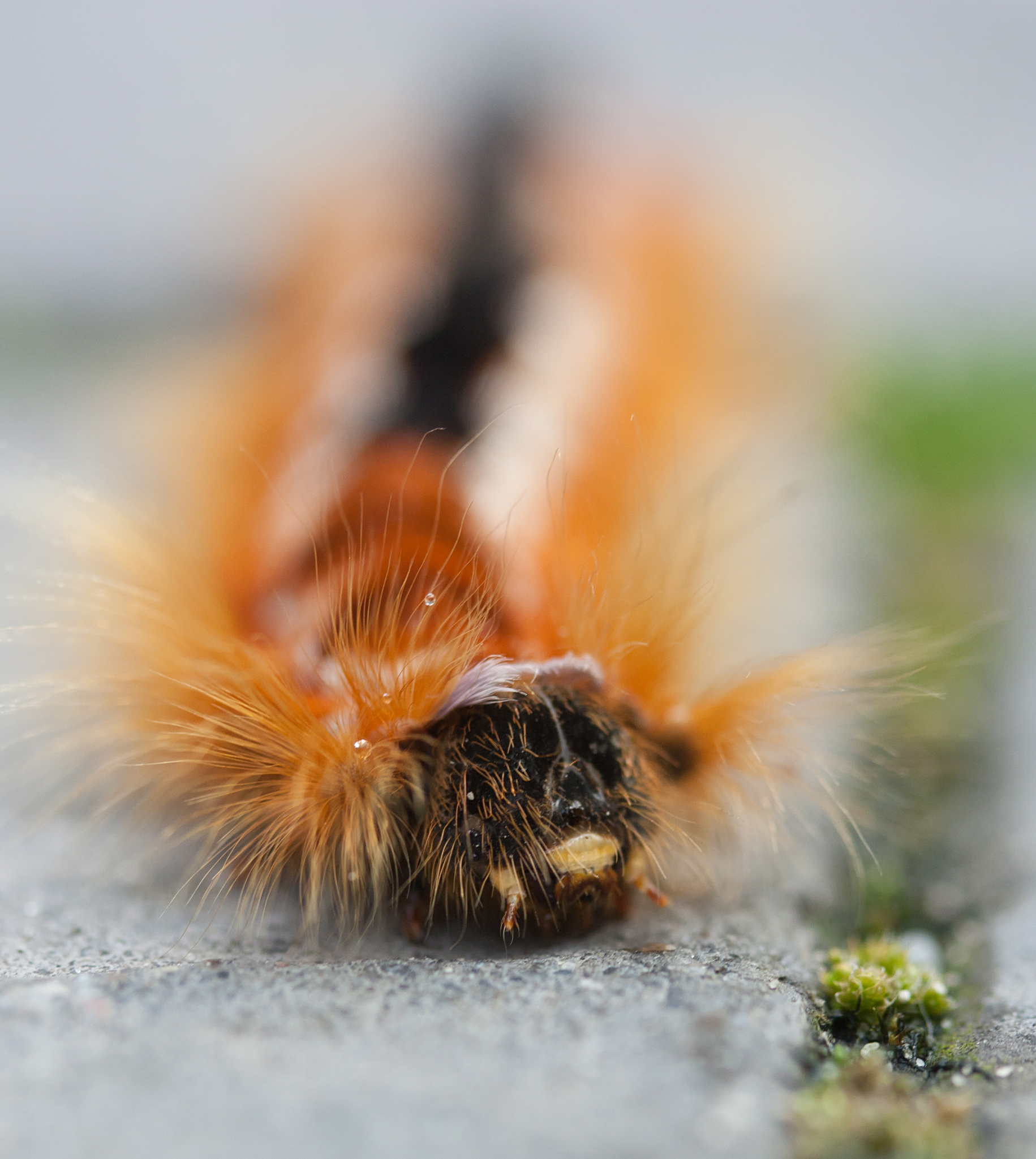 Eutricha capensis caterpillar, photographed at Boulders Beach, South Africa.